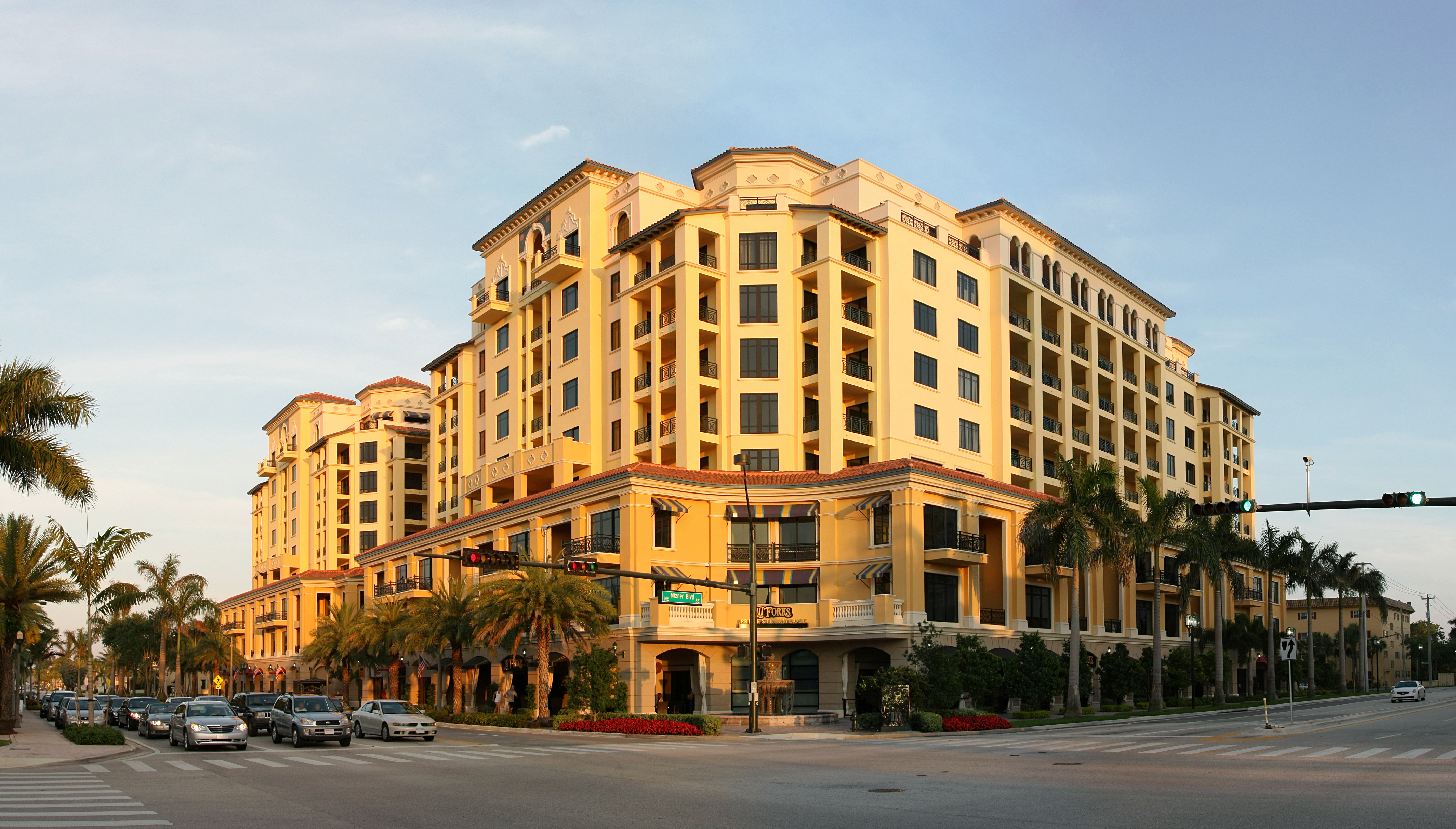 Palmetto Park Rd and Mizner Blvd intersection in Boca raton, Florida.